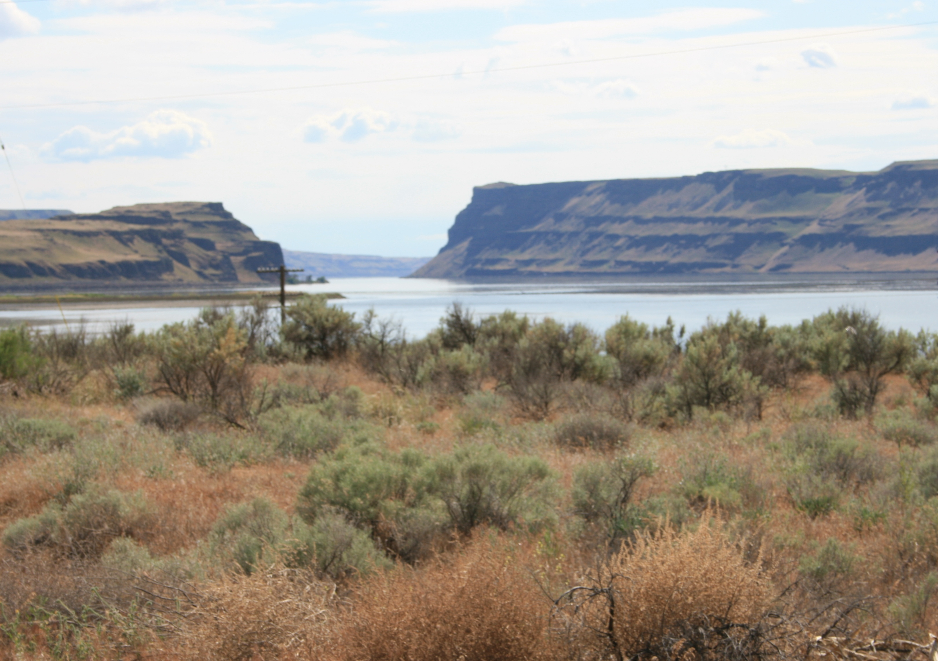 View from the Main Street of Wallula, Washington. Wallula is a census-designated place (CDP) in Walla Walla County, Washington, United States. The population was 197 at the 2000 census.